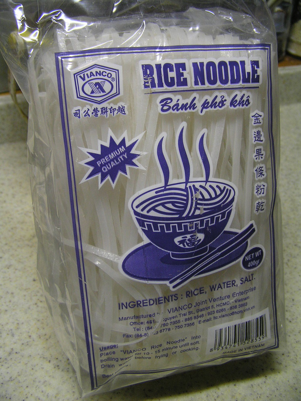 A package of dried noodles produced in Vietnam and sold in Japan.